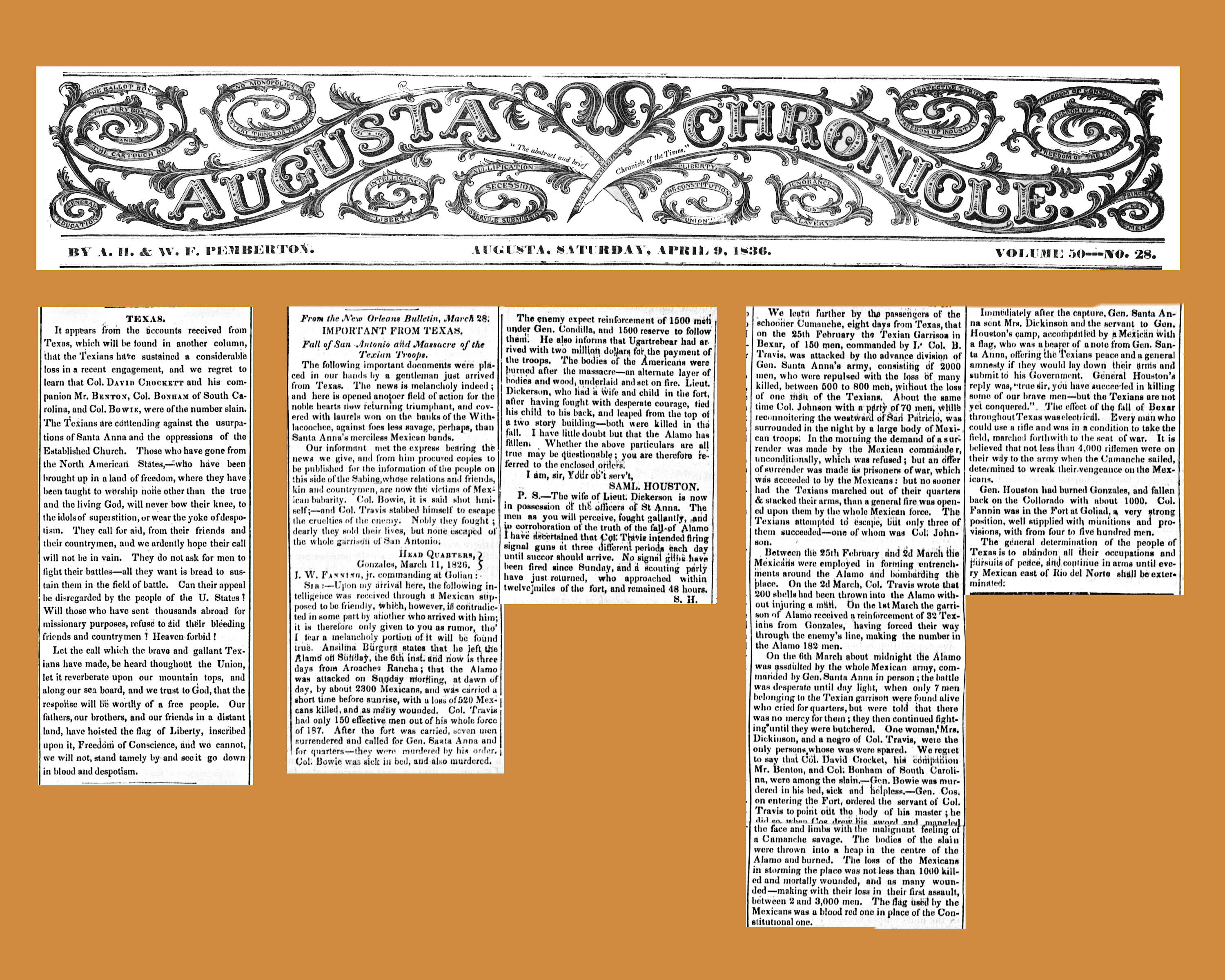 Newspaper columns from The Augusta Chronicle of April 9, 1836, describing the Battle of the Alamo. This is not the earliest newspaper report or the most prominent newspaper... but it was available on .